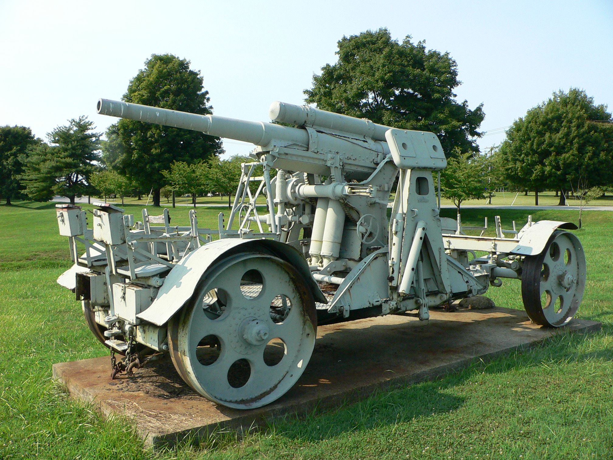 Picture taken by myself, Mark Pellegrini, at the United States Army Ordnance Museum (Aberdeen Proving Ground, MD) on August 14, 2007.